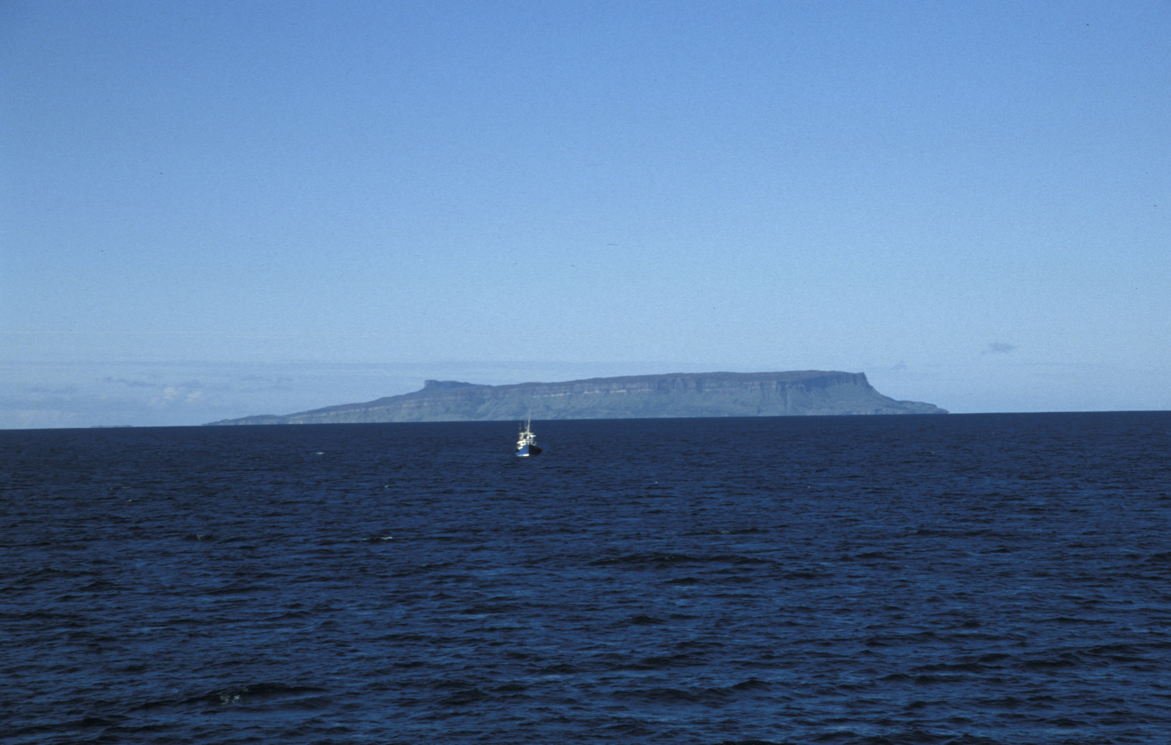 Eigg (island), Scotland. View from the ferry between Mallaig and Armadale (Skye). Scanned from a slide photography taken 2003-08-28.